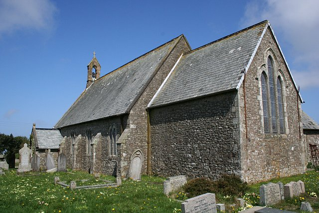 Church at Four Lanes This is the Church of St Andrew for the Parish of Pencoys. It was built in 1882.